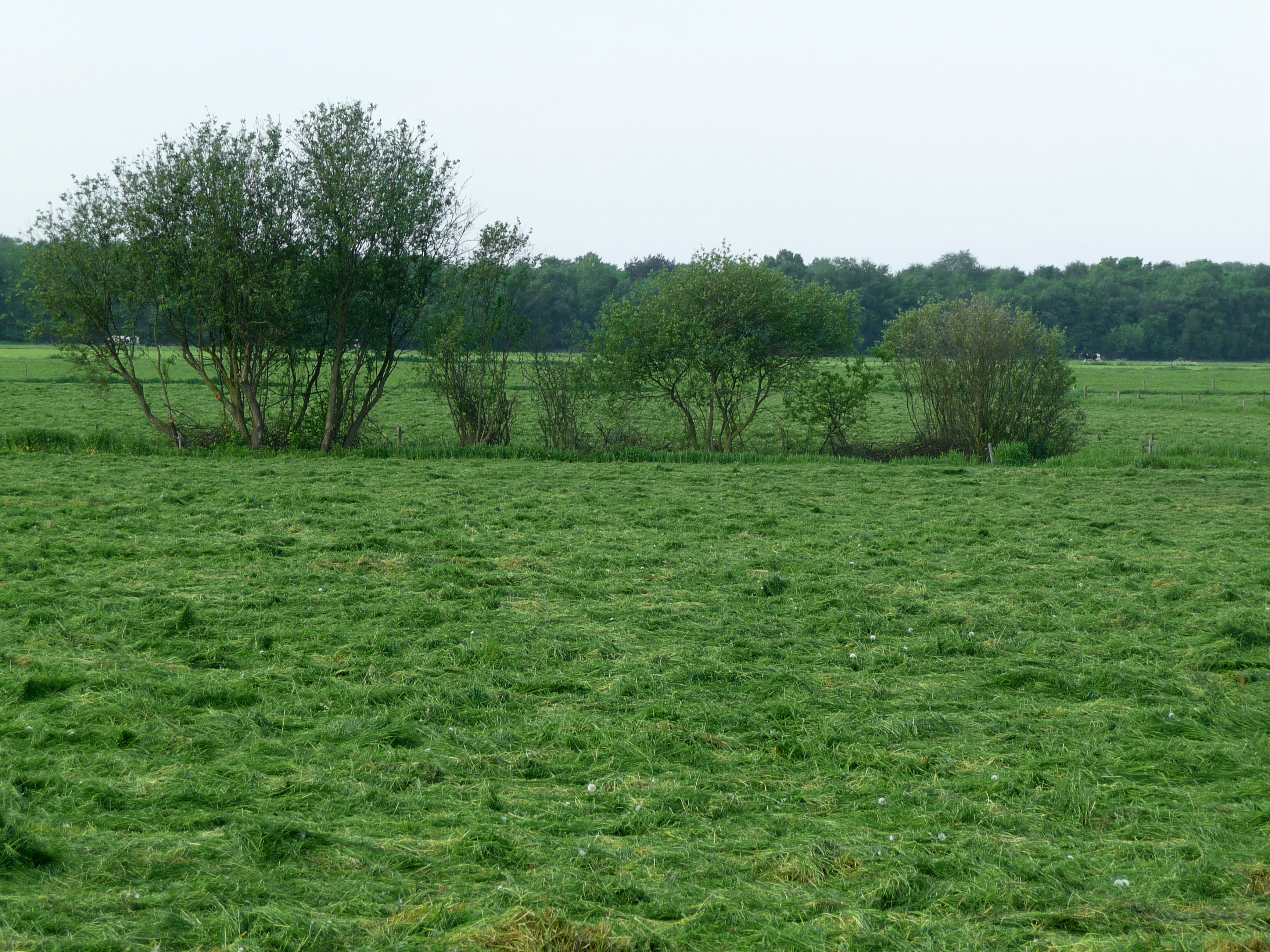 Photo of some fresh mowed grass field with still some faded dandelions who survived the knives of the reaper. The meadows are used by a cow farmer, as stock punt under the plastic sail, so the humid grass will acidify and keep its nutritive value for the cows. This is an common way to preserve grass for the cows - in 2012 - in the agriculture of the Netherlands